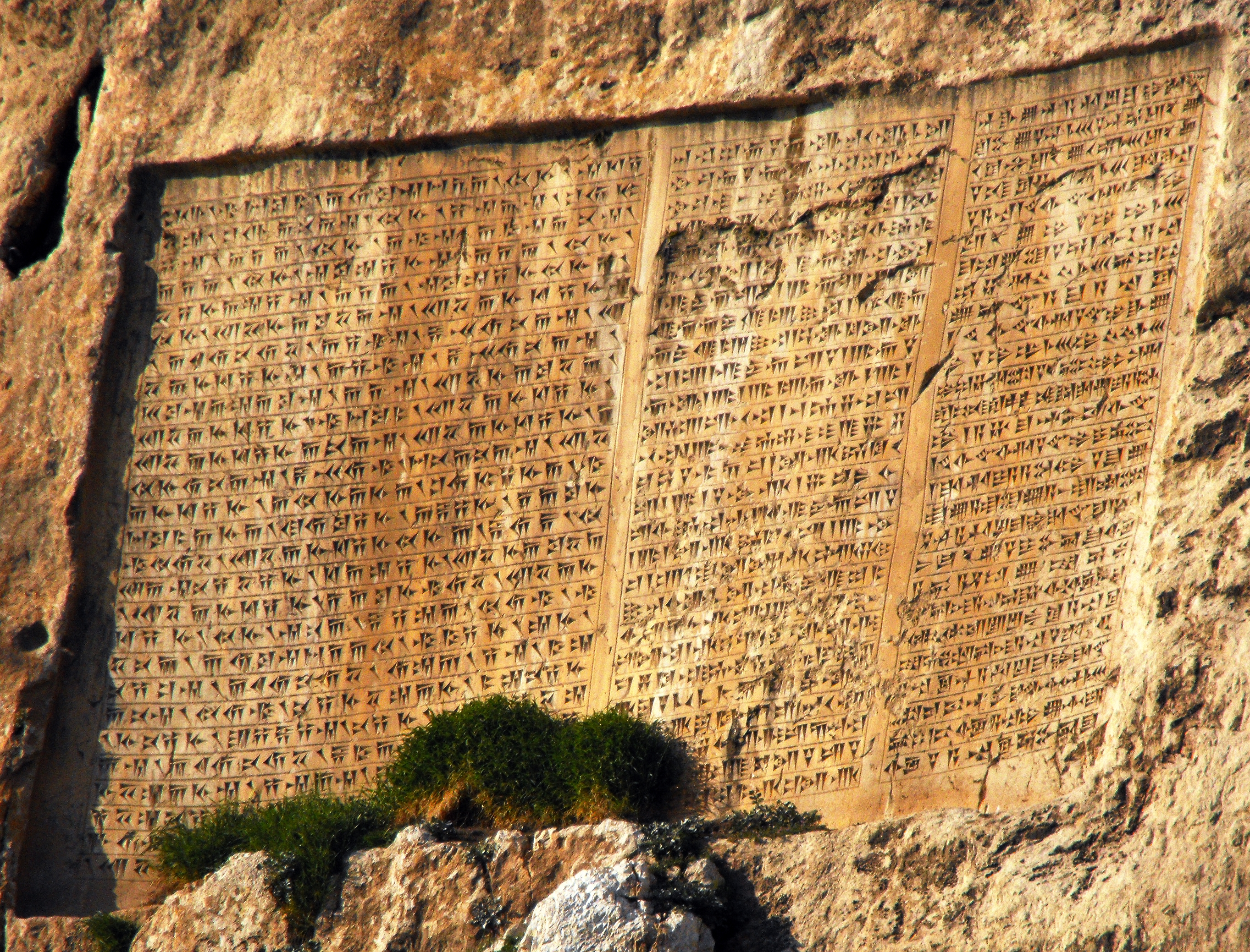 Trilingual inscription of Xerxes, Inscription on Van castle, Van, Turkey (Van Kalesi) 2009.